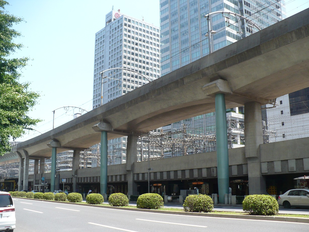 Chuo line's approach track to Tokyo station. The support pillars are constructed on the public road.